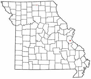 Modified from Image:MOMap-doton-Springfield.png